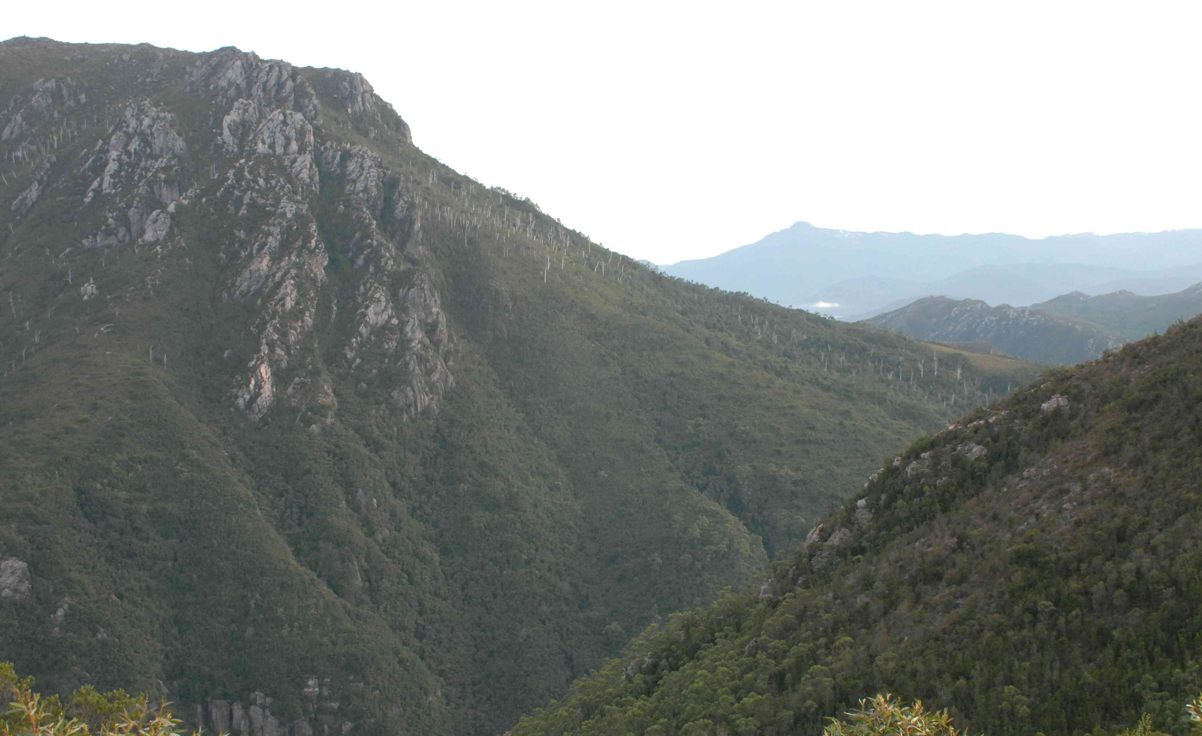 Mt Huxley, Western Tasmania showing rocky outcrop on South face above the King River Gorge, Eldon Peak on the skyline at rear